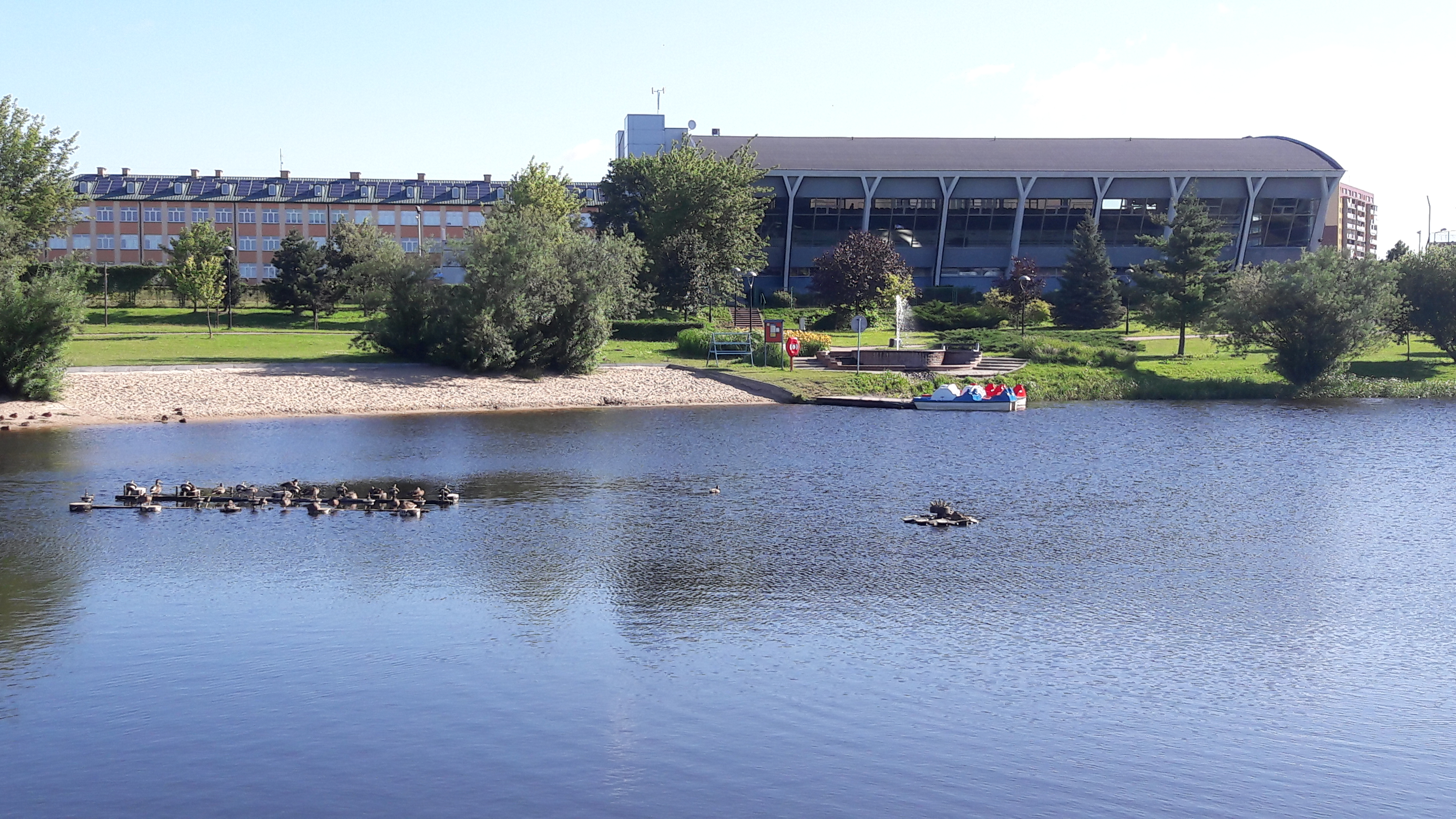 Pływalnia nad zalewem